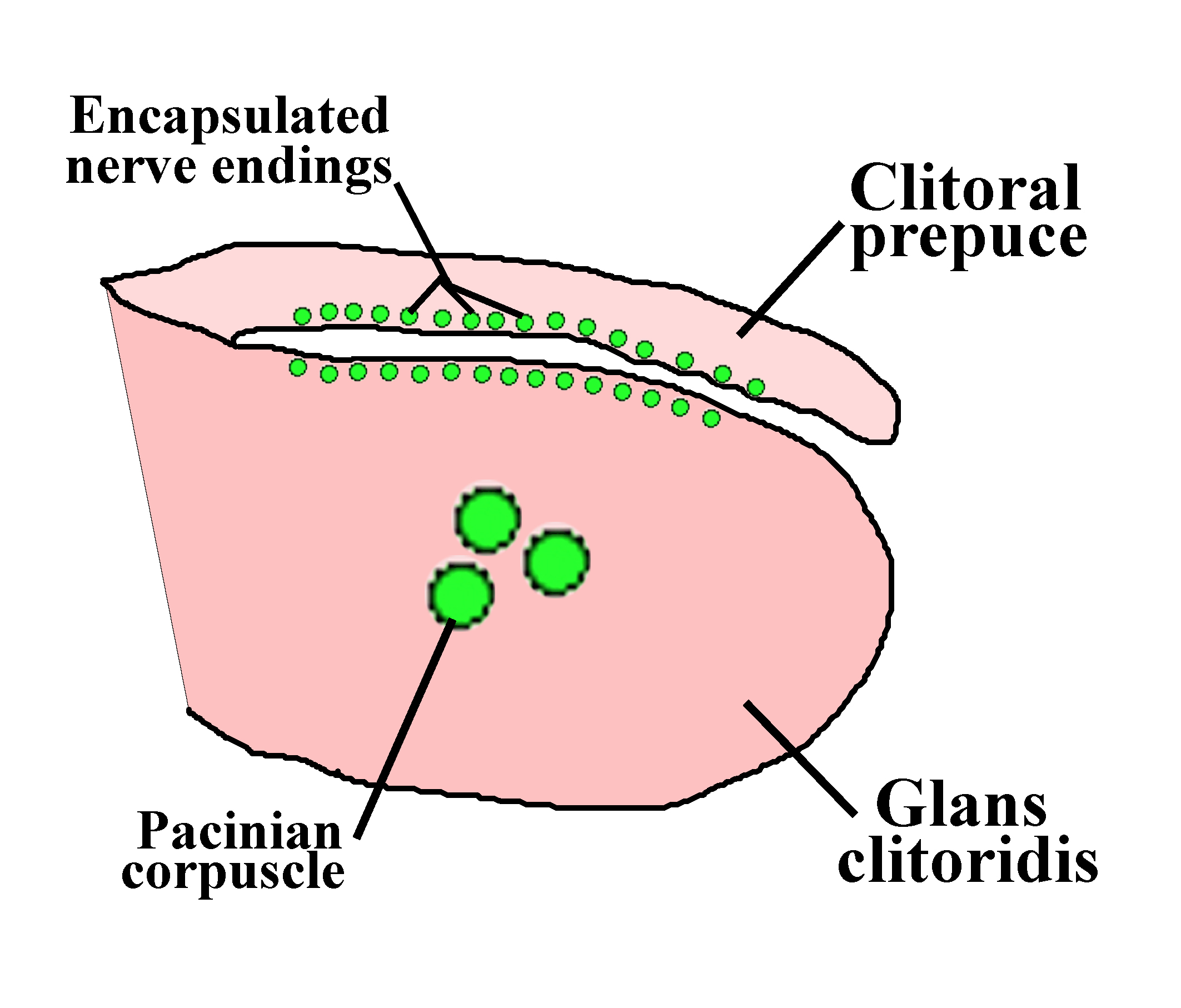 Diagram of the human glans clitoridis, showing locations of encapsulated sensory receptors.